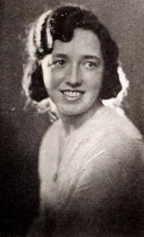 Film editor Viola Mallory Lawrence, on page 151 of the December 25, 1920 Exhibitors Herald. She is considered by many to be the first woman film editor in Hollywood.